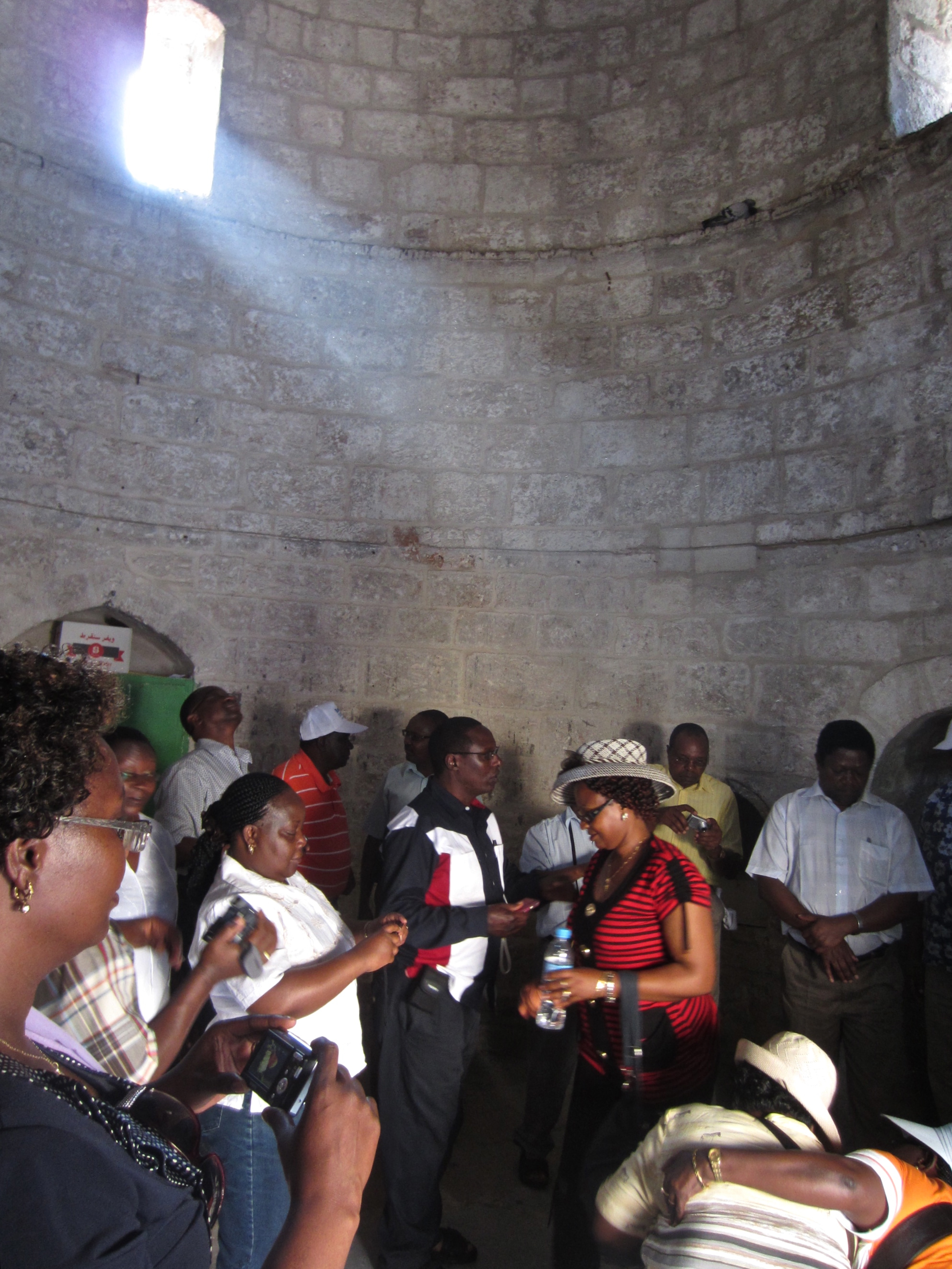 This really is a small building; there's not even room for a dedicated altar as you'll see in most other locations. Tour groups like this group of African pilgrims, and the Korean group that followed them, easily fill the entire room Jerusalem